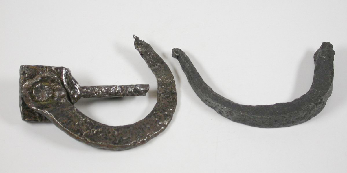 Two part iron handcuff, Roman period.